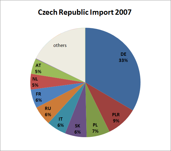 Import of the Czech Republic 2007